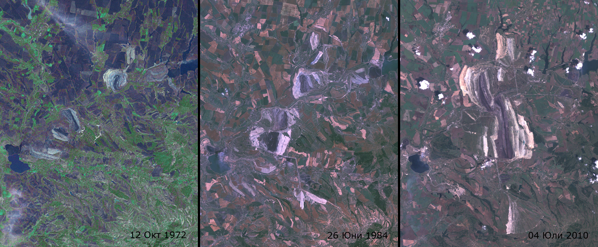 Land change arond Maritsa iztok mining complex